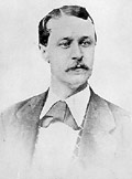 Daniel E. Kelly